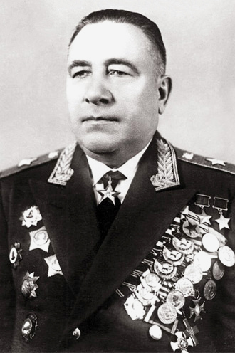 Mikhail Katukov, after 1959